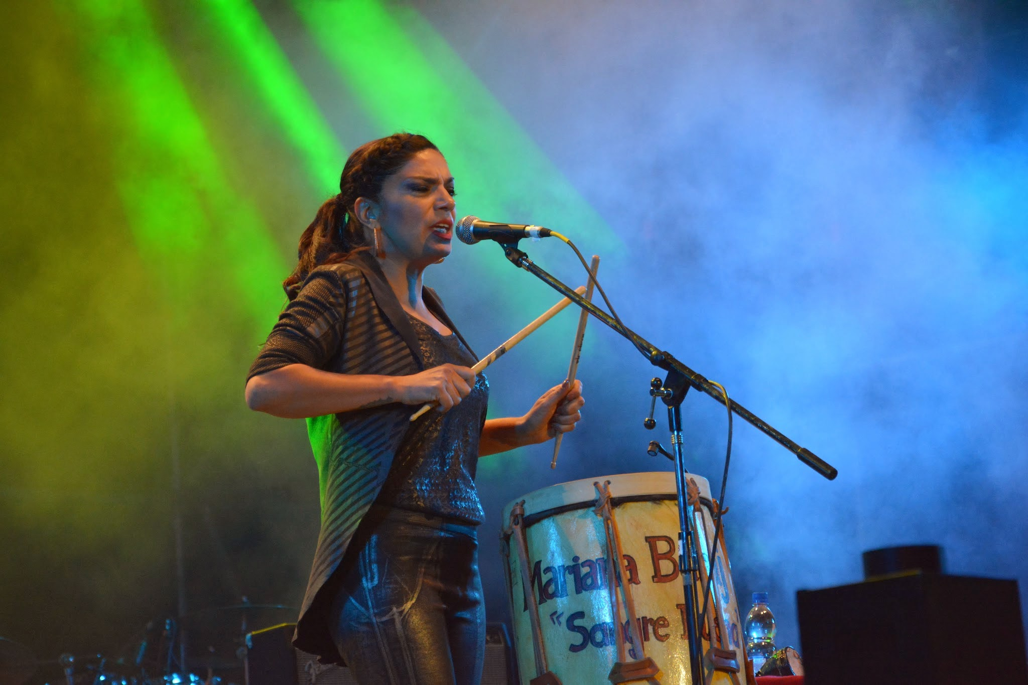 San Marcos Sierras, 29 de enero de 2015. Dentro de la campaña “Verano de emociones”, organizada por Presidencia de la Nación en conjunto con el Ministerio de Cultura de la Nación se presentaron Los Tekis, El Chani Popolvuh, Giovanni, Karavana, Siempre Salta, Giovanni, Mauro Nievas del Castillo, Micaela Chauque y Mariana Baraj.